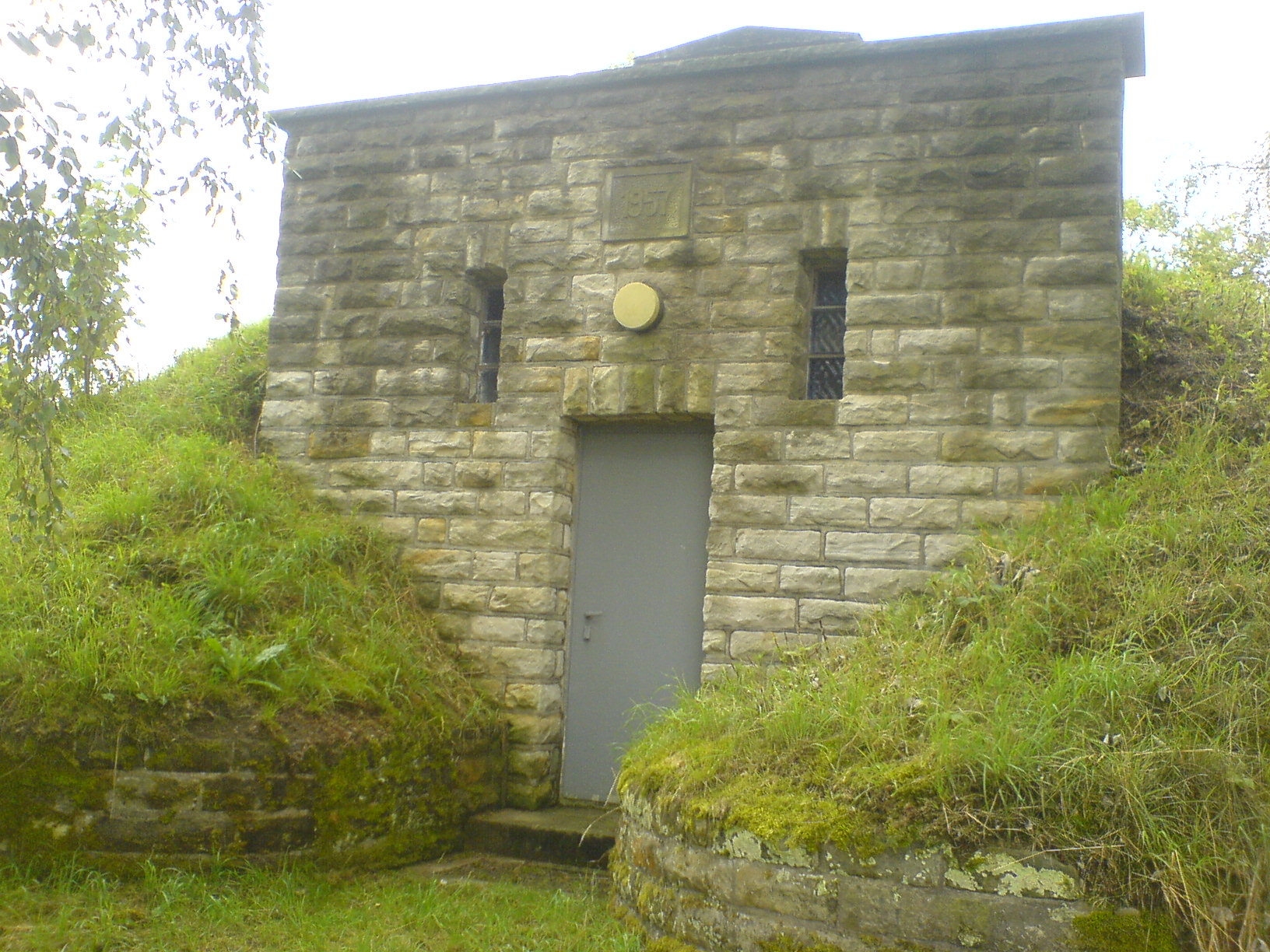 Hochbehälter Totdenberg